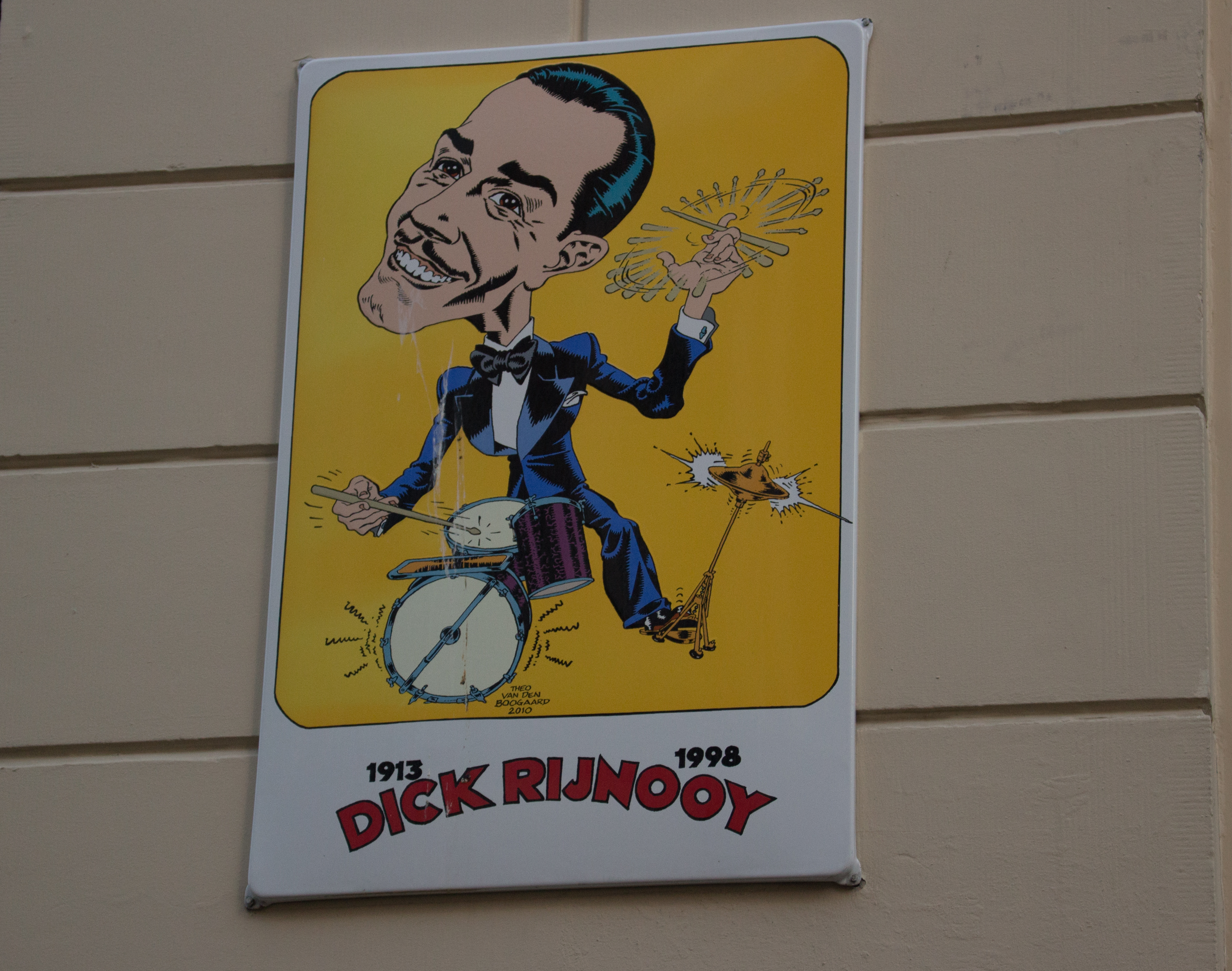 Dick Rijnnooy by Theo van den Boogaard (2010)